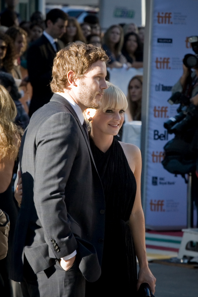 At the premiere of "Moneyball", directed by Bennett Miller, during the Toronto International Film Festival, 2011